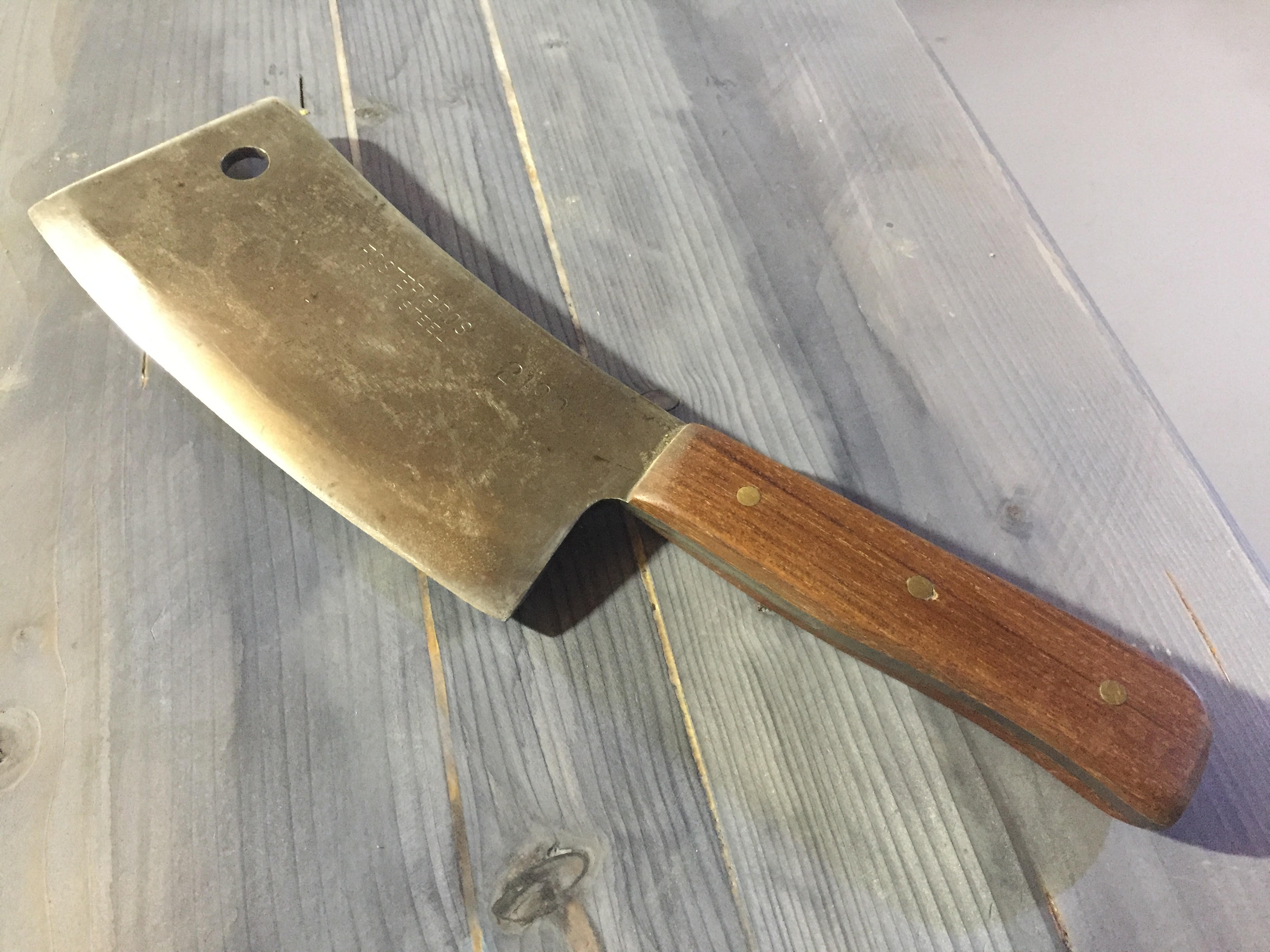 Cleaver, Blade